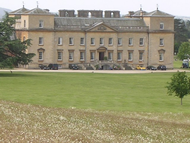 Croome Court, Worcestershire